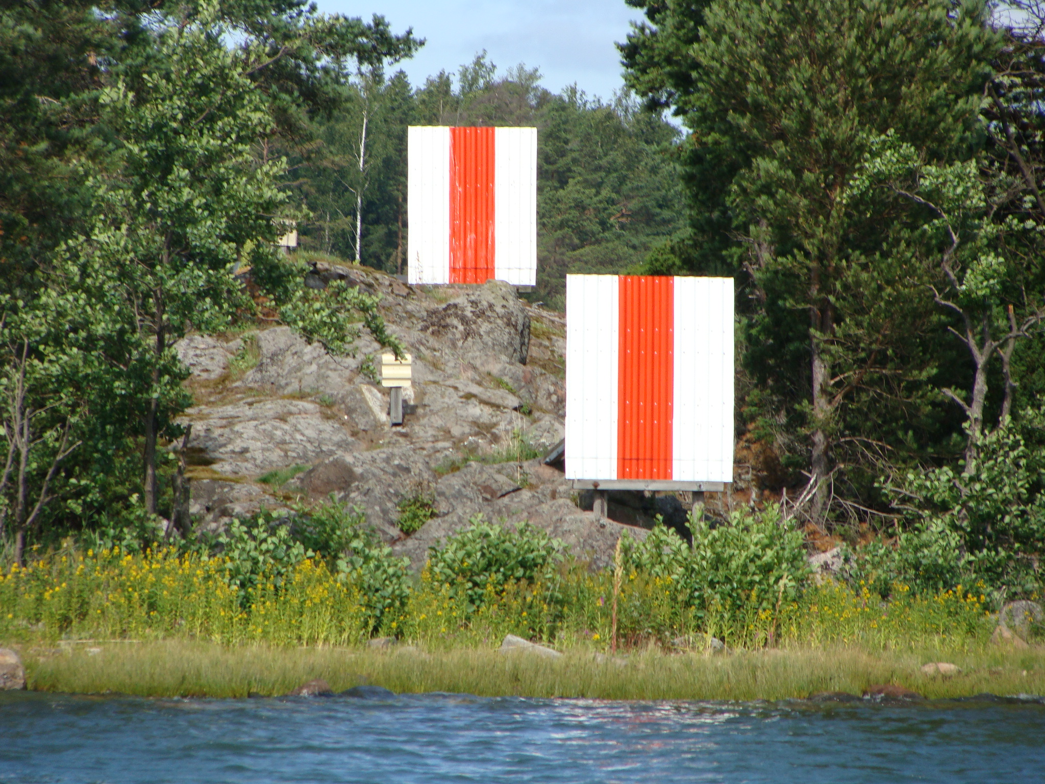 Leading beacons forming a range to indicate the centreline of a fairway north of Styrmansholmen in South-Eastern Archipelago Sea in Finland.